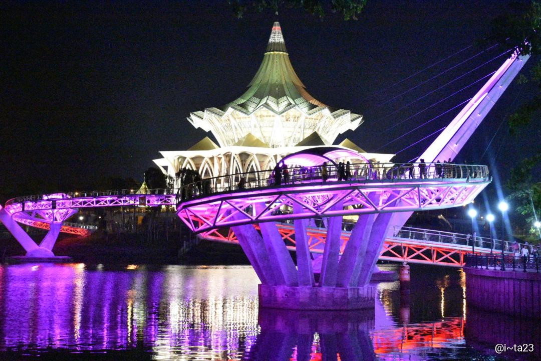 Sarawak New Parliament Building